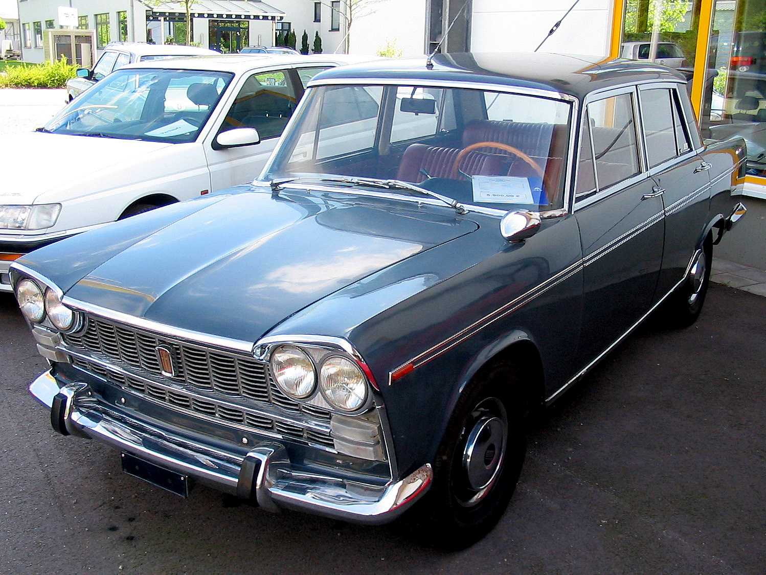 Description Fiat 2300 DateJuly 2005SourceOwn workAuthorDirk Fiat 2300